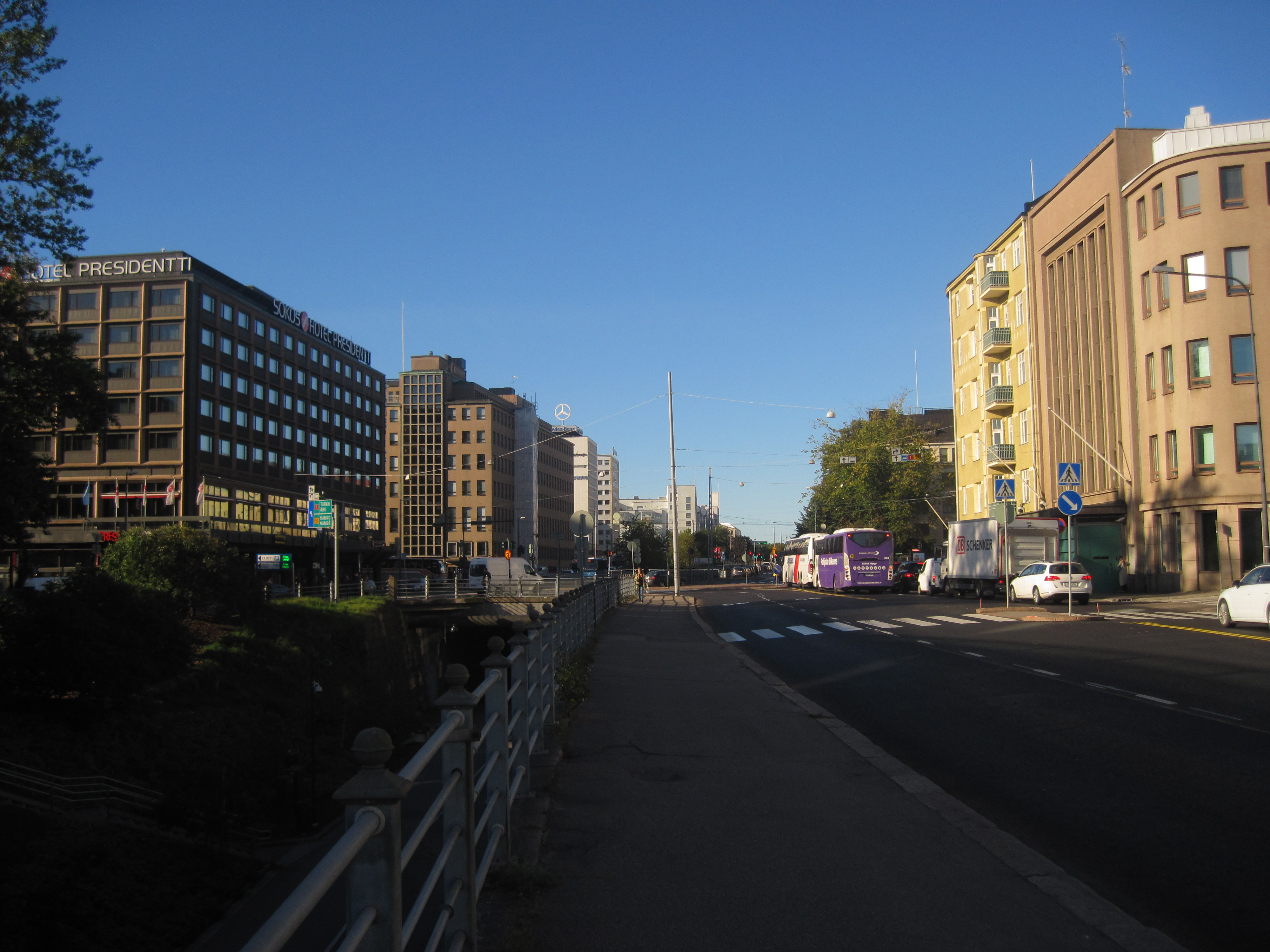 Rautatiekatu Streets in Helsinki